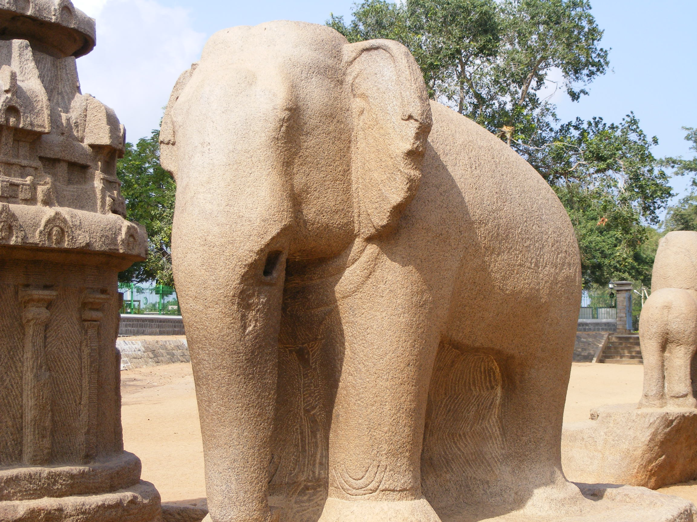 elephant